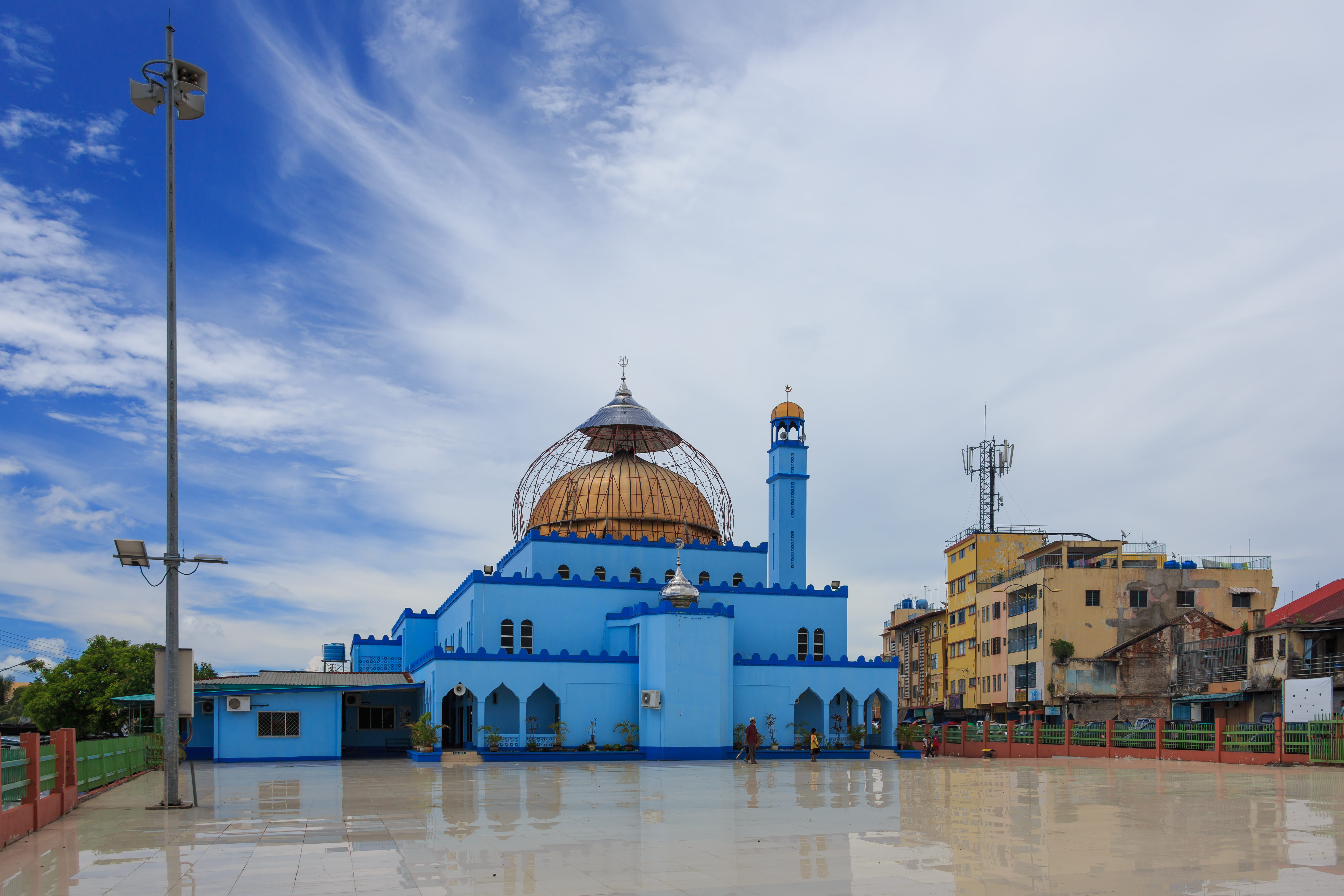 Semporna, Sabah: Semporna City Mosque. On the left side the siren station of the Malaysian National Tsunami Early Warning System in Semporna